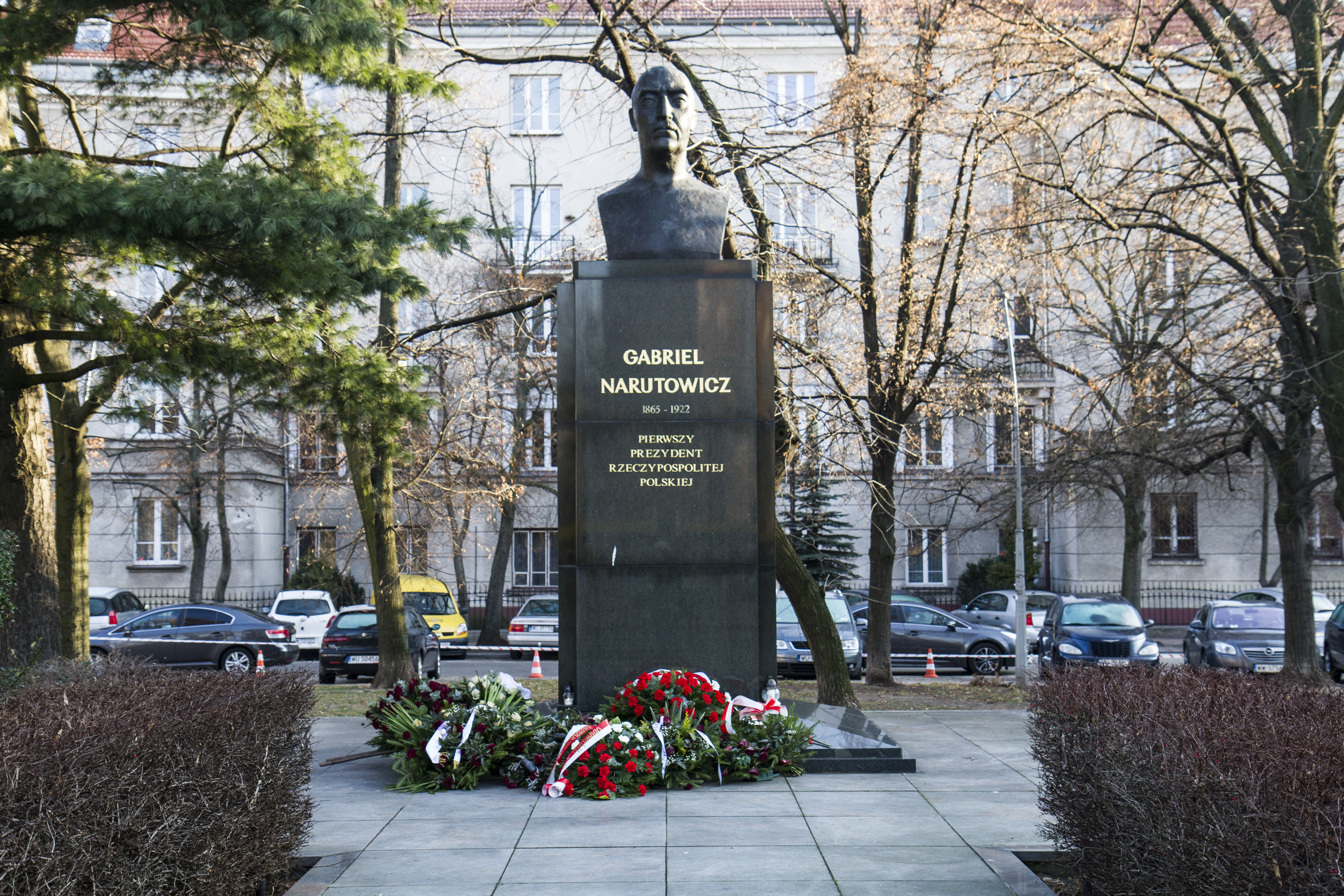 Monument to Gabriel Narutowicz in Warsaw